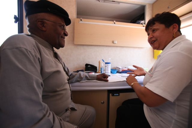 Archbishop Desmond Tutu gets an HIV test on the Desmond Tutu HIV Foundation's Tutu Tester, a mobile test unit that brings testing right to your doorstep.